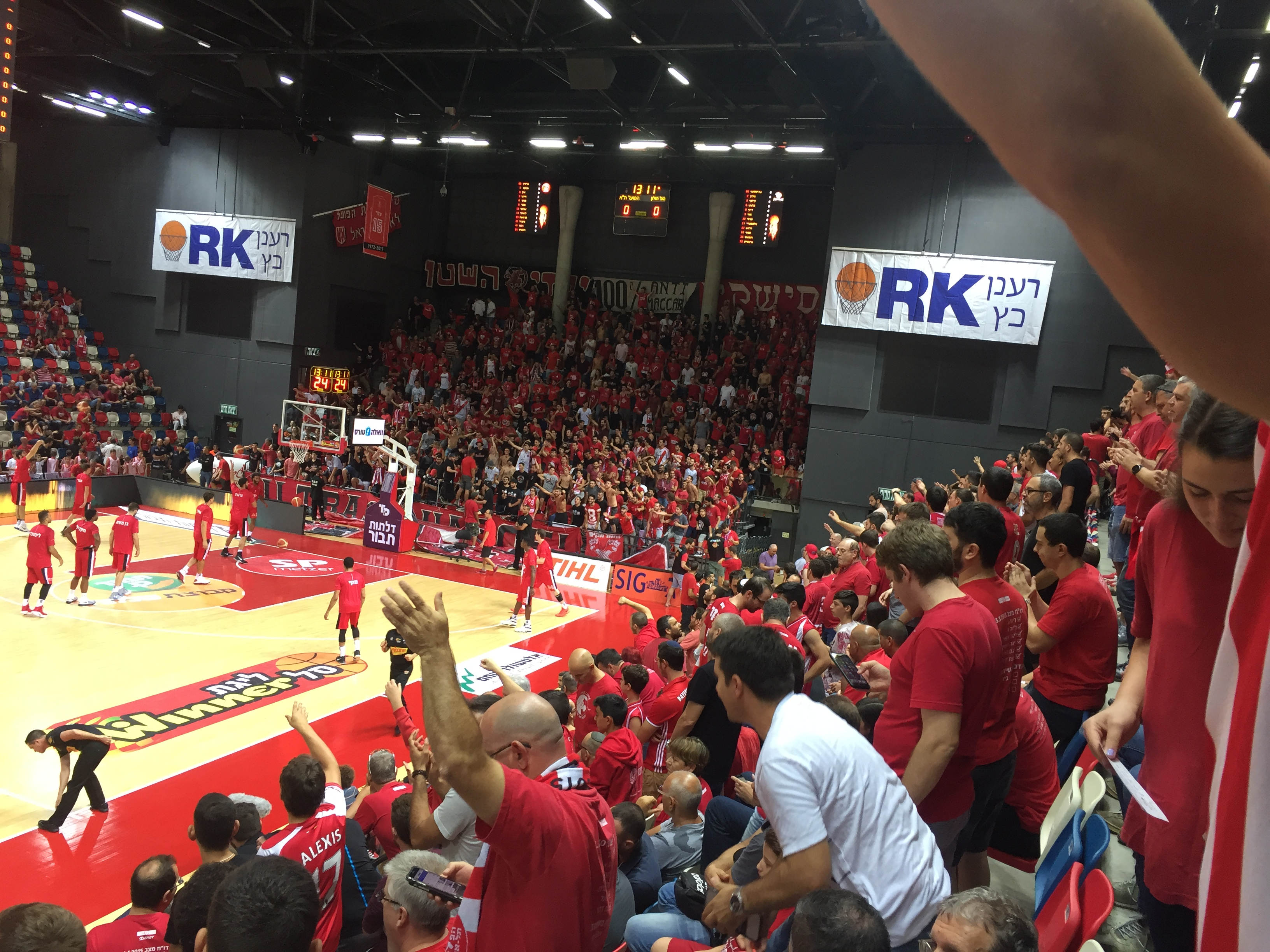 Hapoel Tel Aviv BC fans at Drive in Arena, 2017